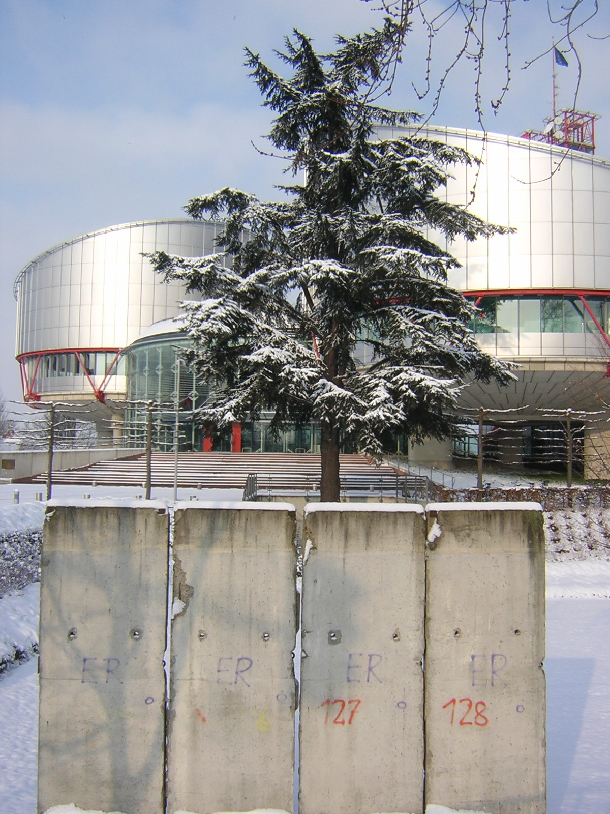 Part of the berlin wall in front of the Human's Right building